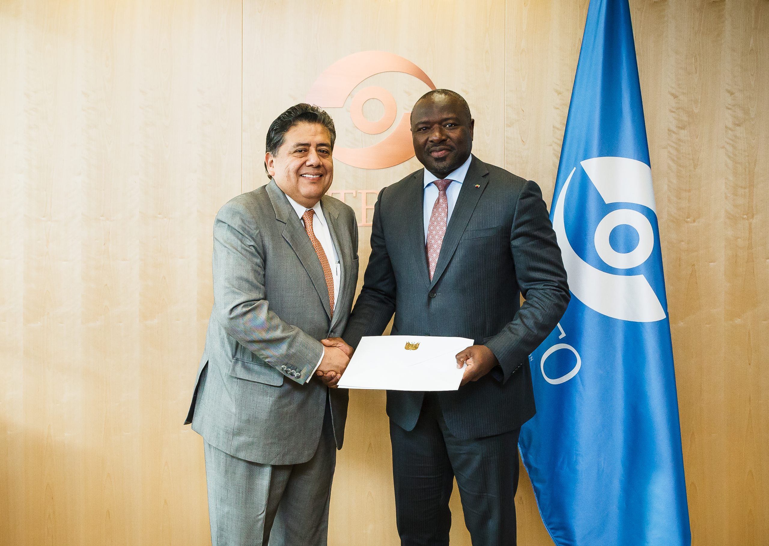 H.E. Alfredo Raul Chuquihuara Chil, Permanent Representative of Peru, presents his credentials to the Executive Secretary Lassina Zerbo.